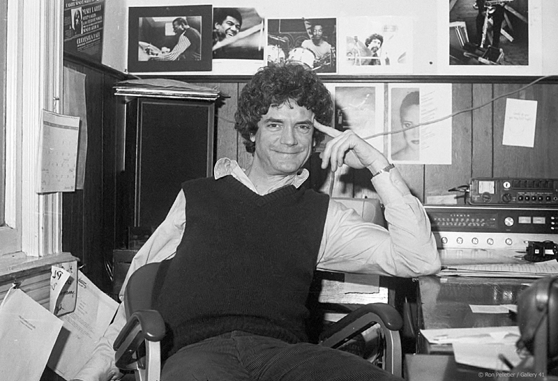 Bud Spangler KJAZ Office Alameda, CA. 1983